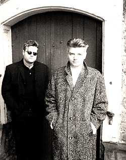 IN MY ROSARY (photo by A. Ziemann)